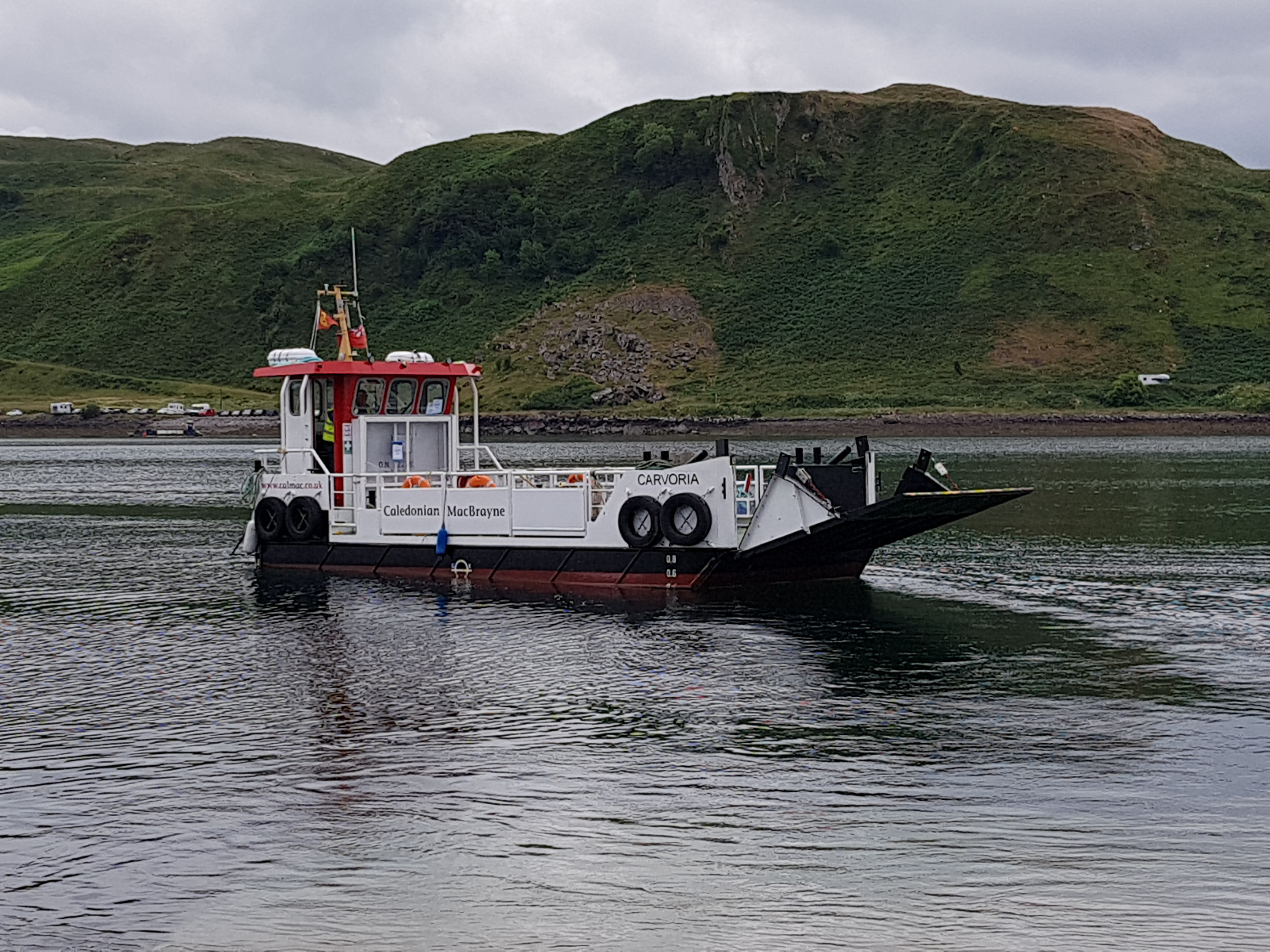 Taken in July 2018